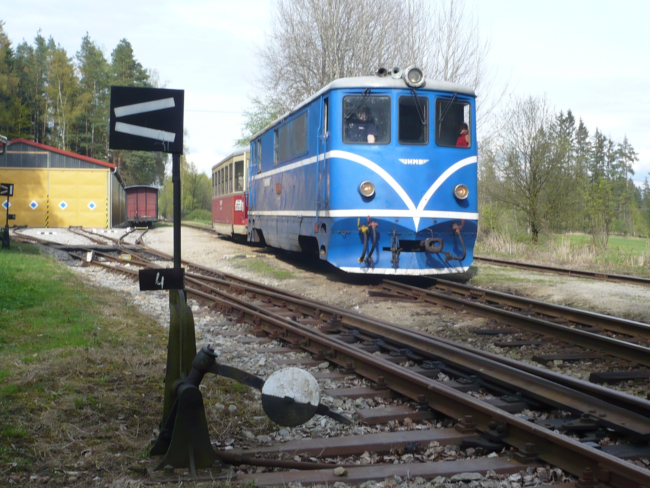 T47 #015 with train No. 211 from Obrataň to Jindřichův Hradec in station Lovětín.